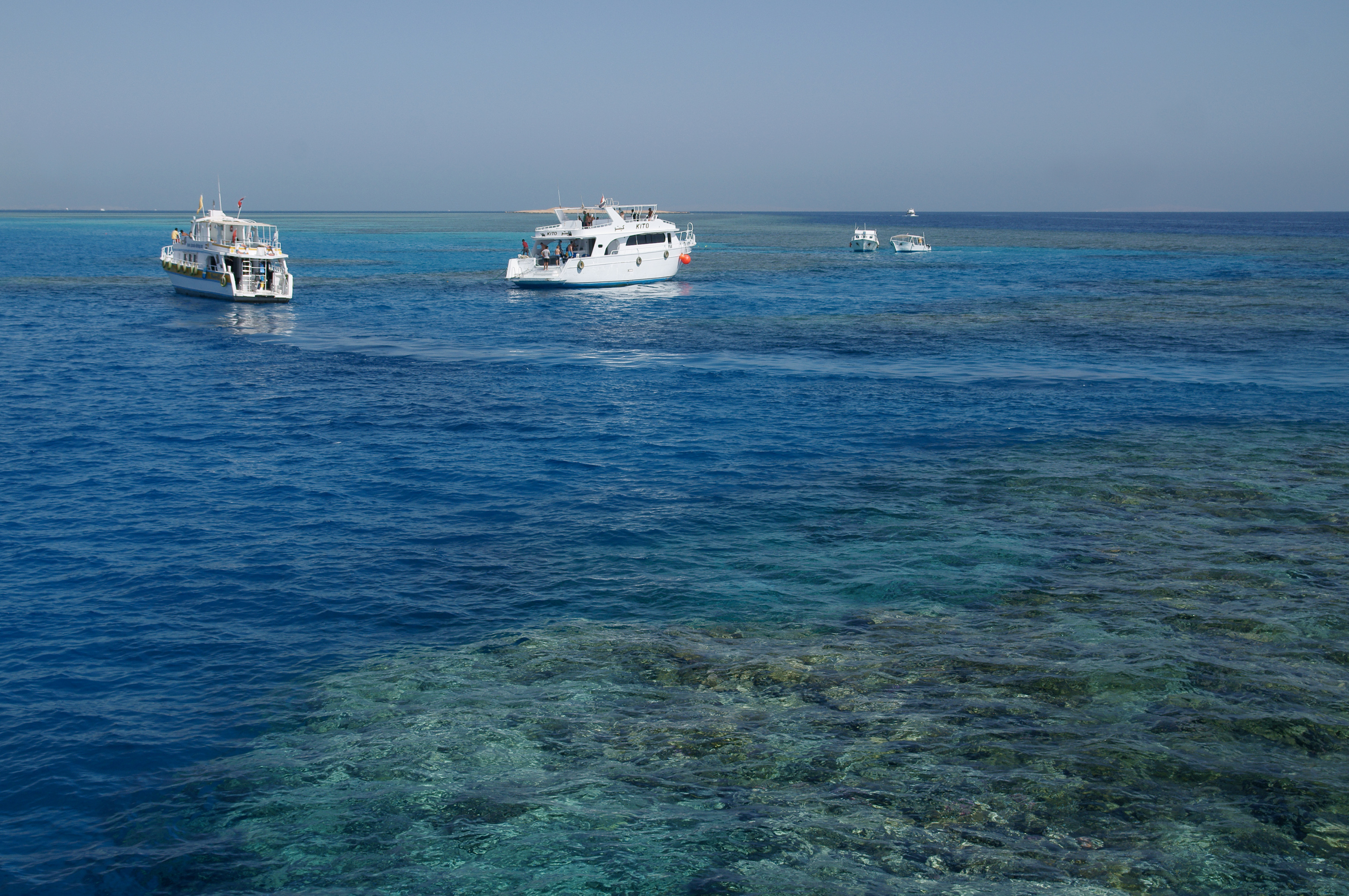 Boats in the middle of coral reefs of the Red Sea.